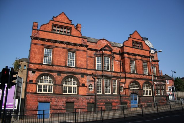 Lincoln Constitutional Club. 1895 by the architect William Watkins. On Broadgate, closed for several years and in need of a new use